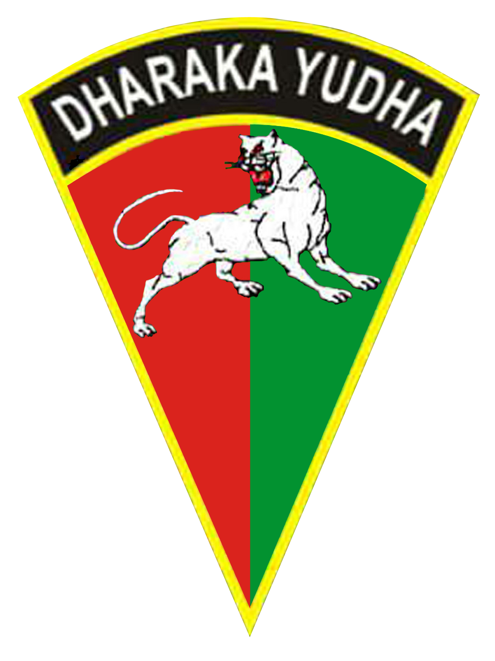 Dharaka